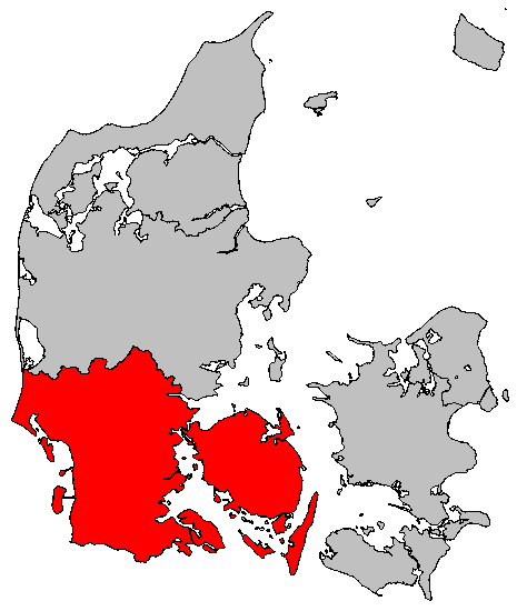 Location map of Region Syddanmark in Denmark. Created by User:Valentinian based on Image:Map DK Odense.PNG created by User:Michiel1972 who released the latter image under PD.